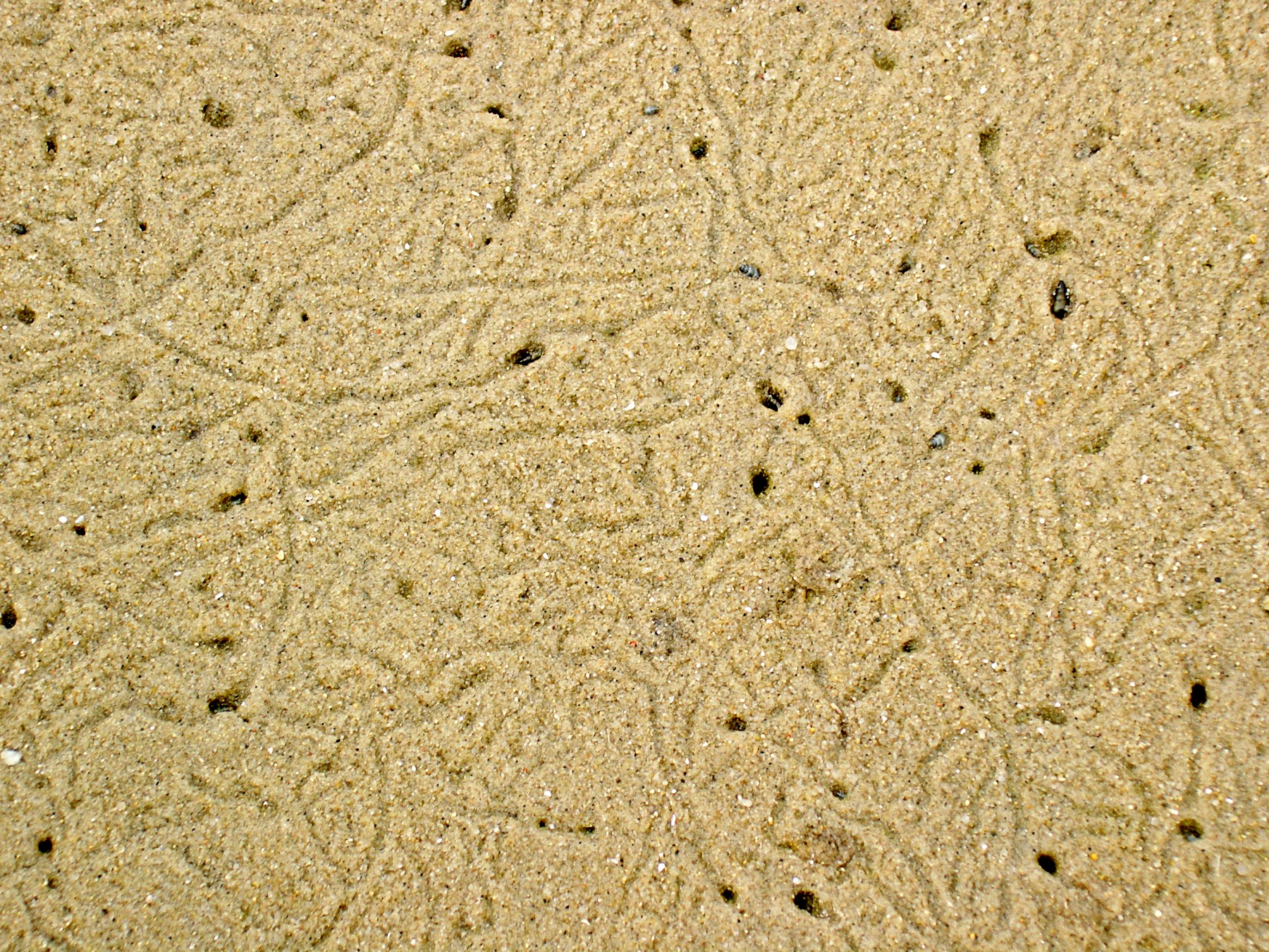 Name: Hydrobia ulvae, (synonym : Peringia ulvae), prints in the sand (mudflat). Family: Hydrobiidae. Location: Cuxhaven, Germany